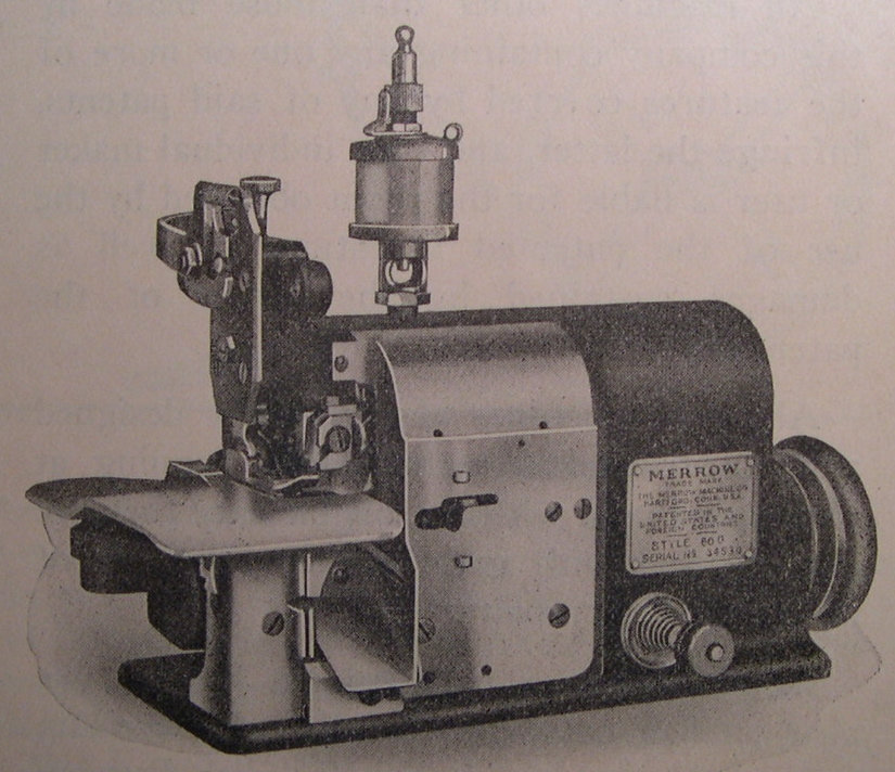 merrow, merrow sewing machine company, this image is available for public use